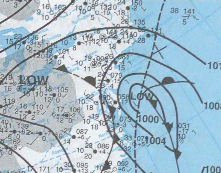 A December 30, 2000 weather map.